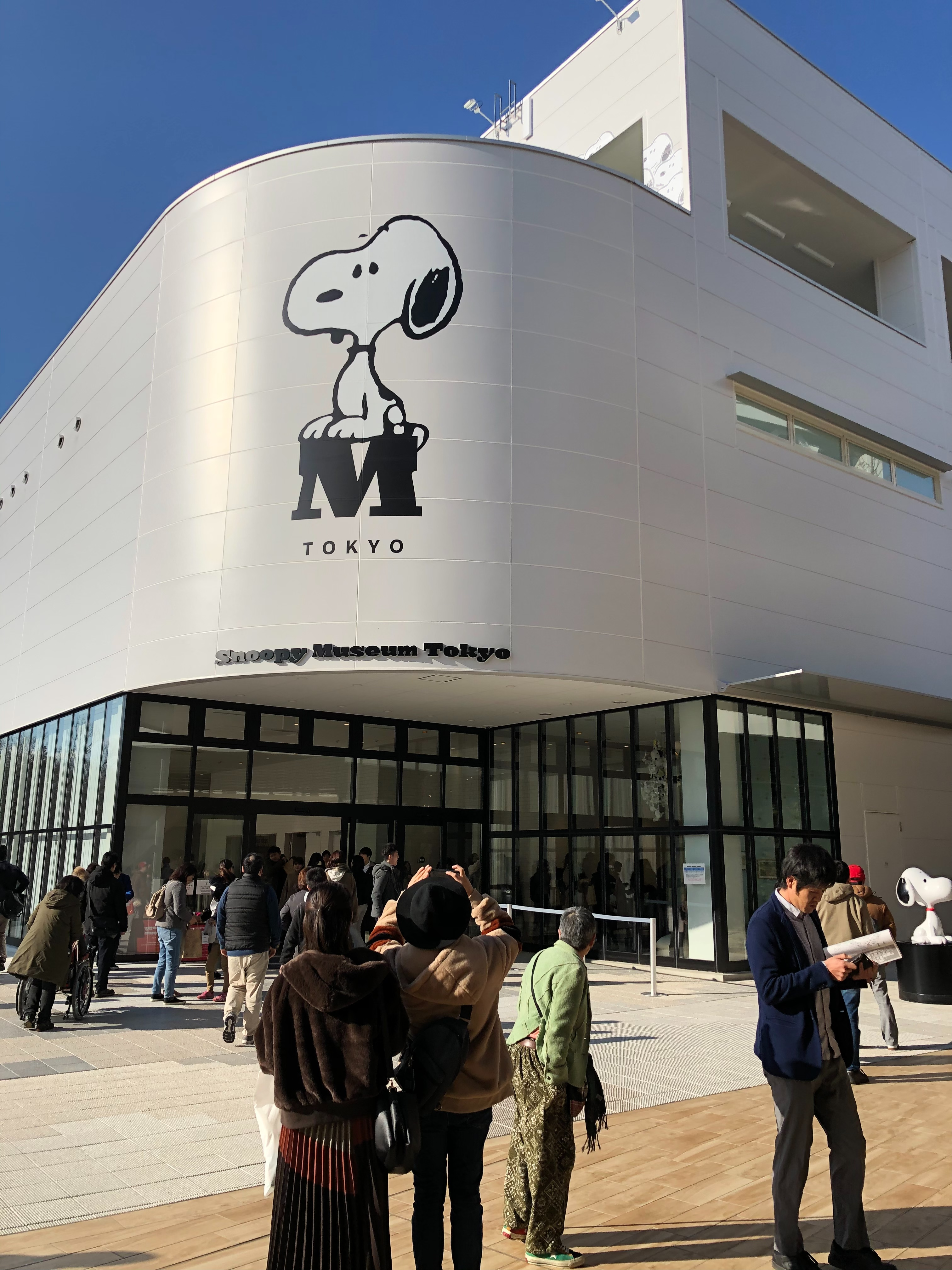 New temporary museum